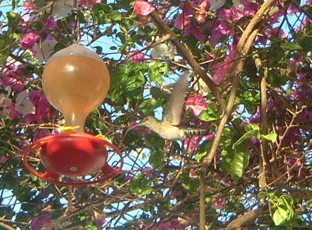 White-necked Jacobin (Florisuga mellivora), my photo of a female in Tobago released to wikipedia. Note the diagnostic pattern on the crissum.